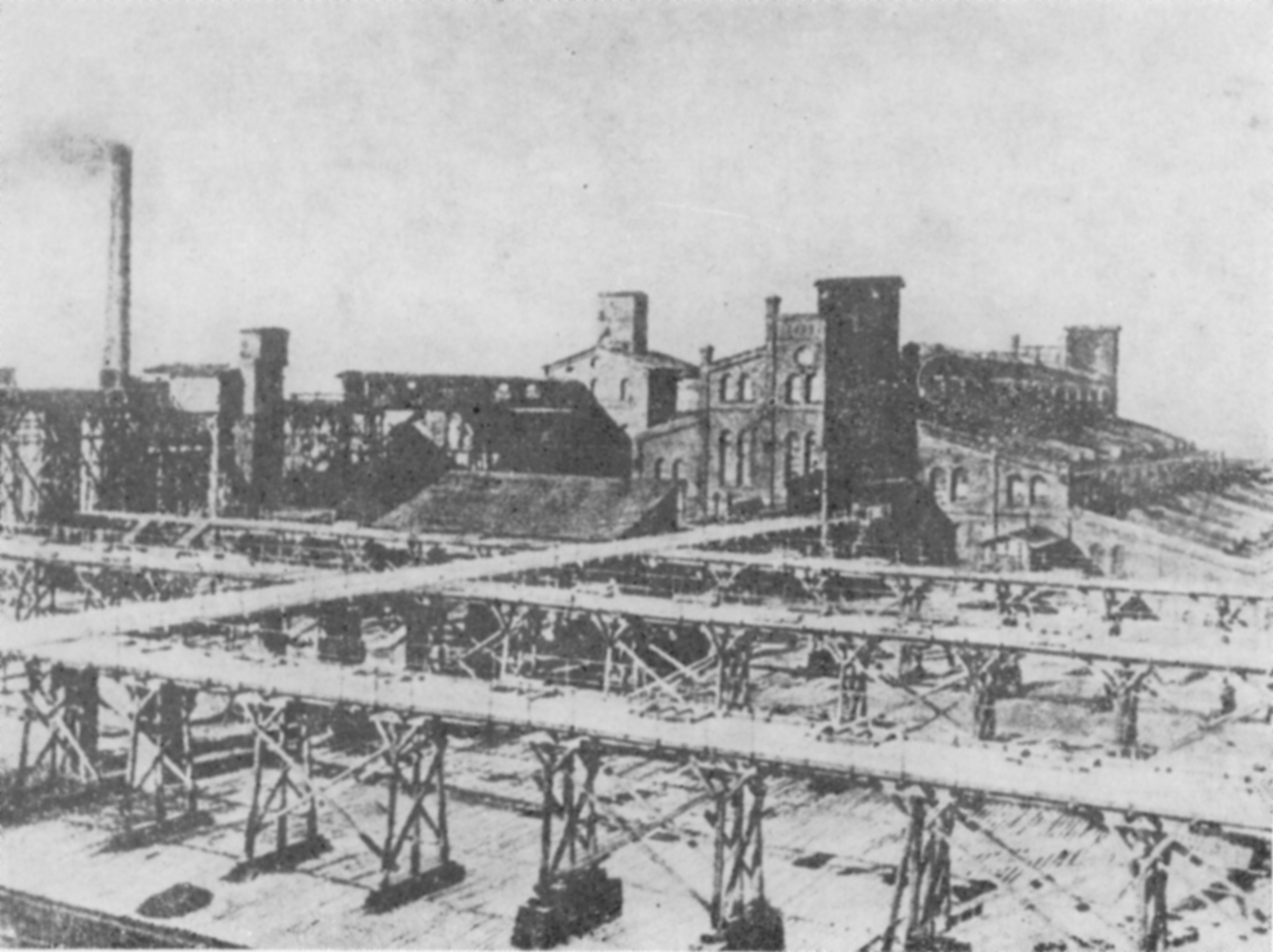 The non-existent zinc and lead ore mine Brzozowice in Brzozowice-Kamień (now part of Piekary Śląskie, Poland).